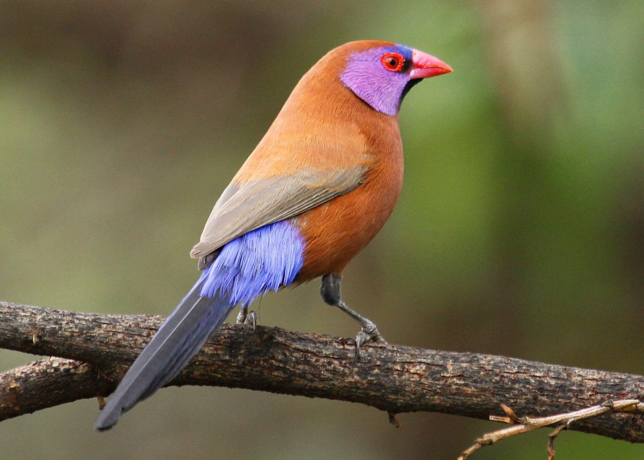 Violet-eared waxbill, Uraeginthus granatinus, at Pilanesberg National Park, Northwest Province, South Africa (male)